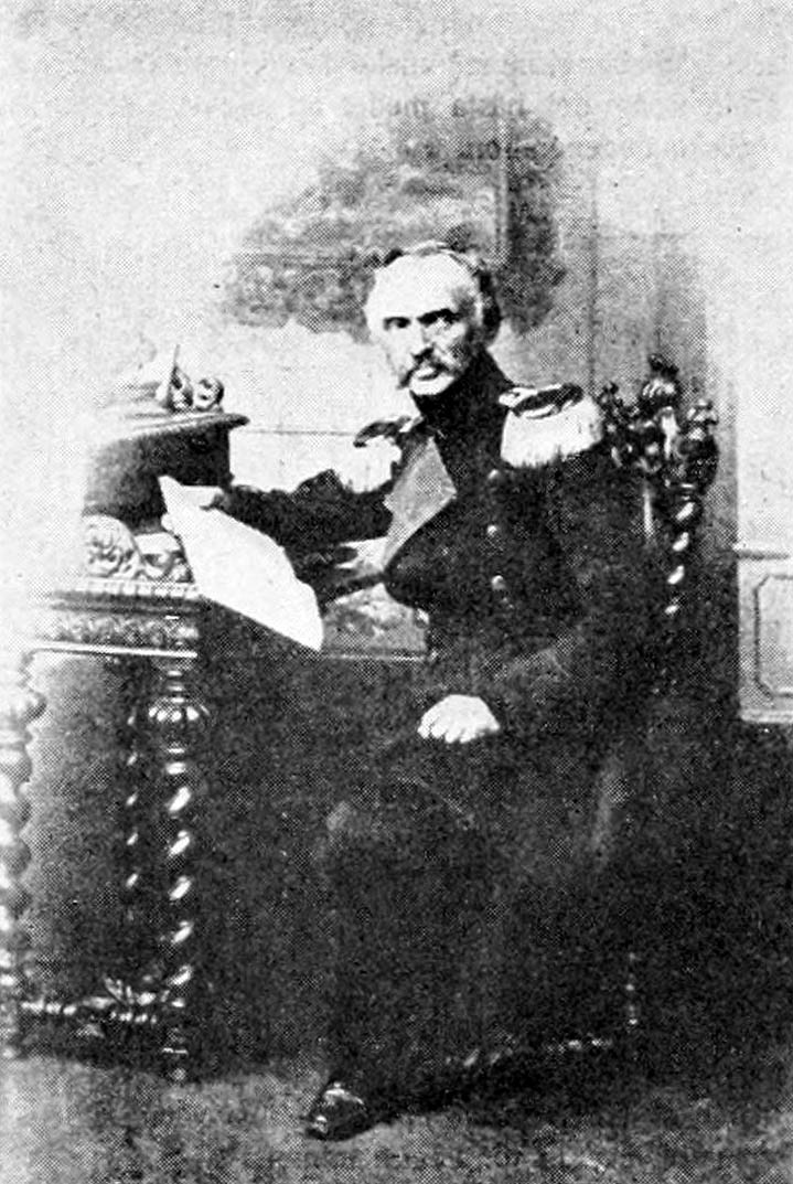 Portrait of Prussian officer and student of Swedish gymnastics Hugo Rothstein (1810-1865).